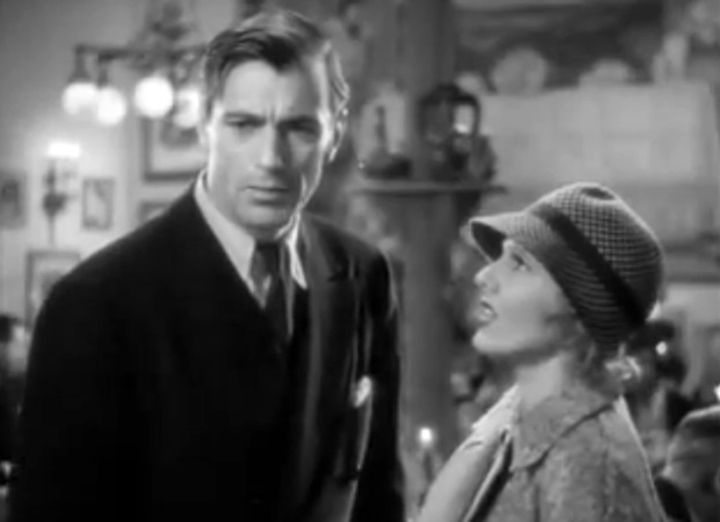 Gary Cooper and Jean Arthur from the film trailer for Mr. Deeds Goes to Town (1936).